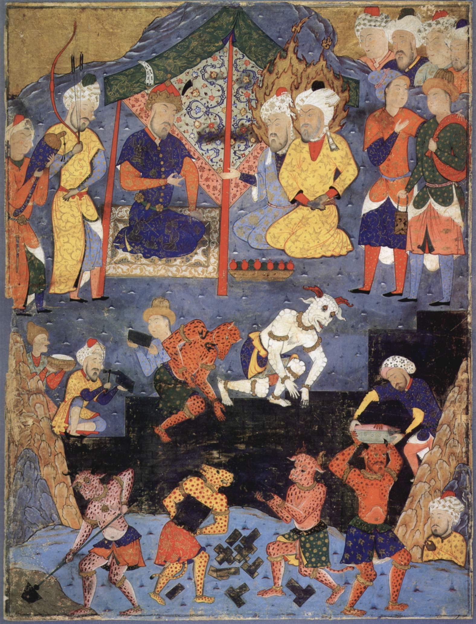 Iskandar (Alexander the Great) oversees the building of the wall to fend off the Yajuj and Majuj people (Gog and Magog). This artist depicts a group of demons (div) helping in the task, even though that is not normally in the story.[2]A miniature from a Book of Divinations (Falnama) [of Ja'far al-Sadiq[1 made for Tahmasp I (r. 1524–76)[2]